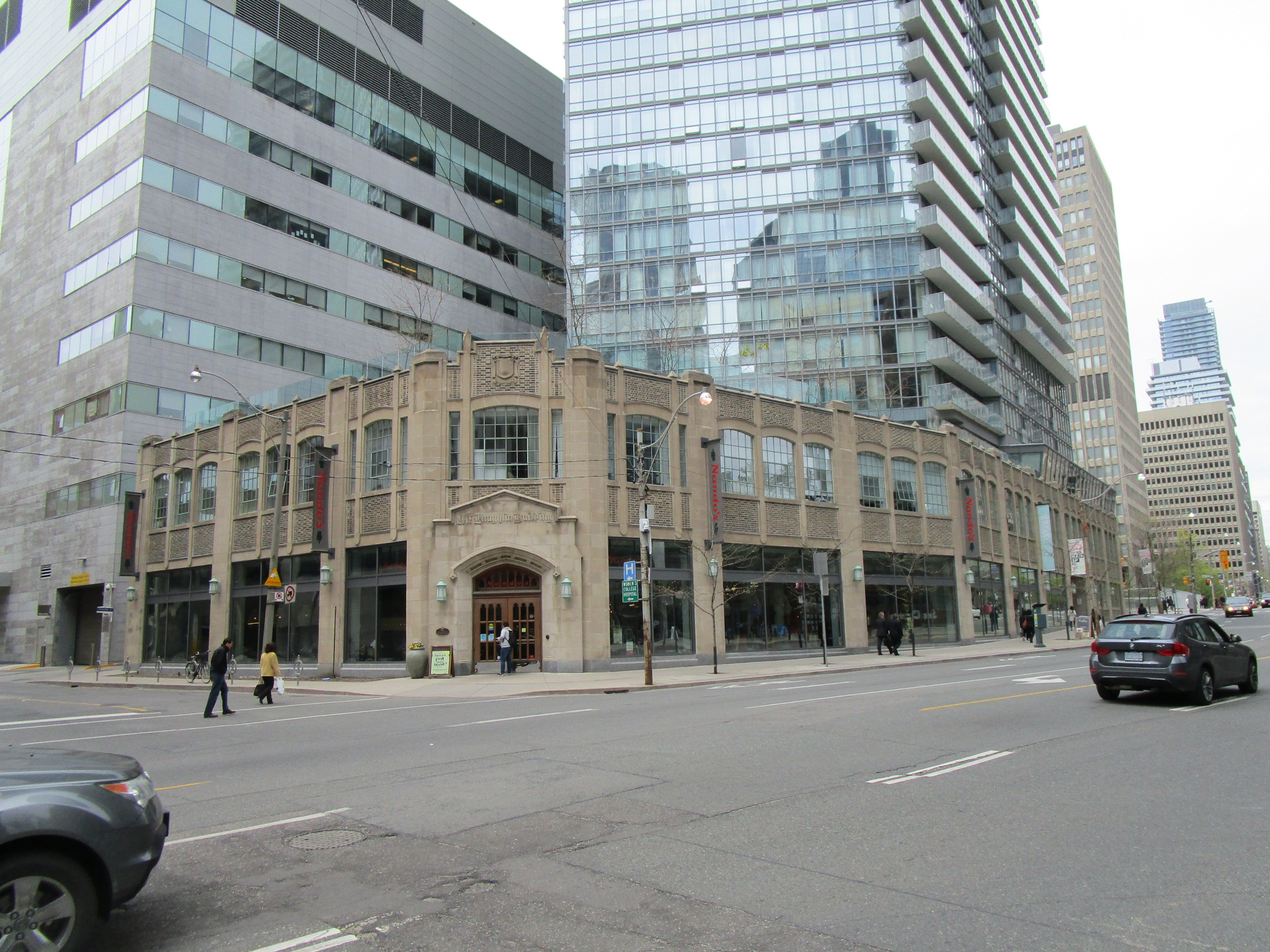 Scanning the Burano, from the SE, 2017 05 12 -e